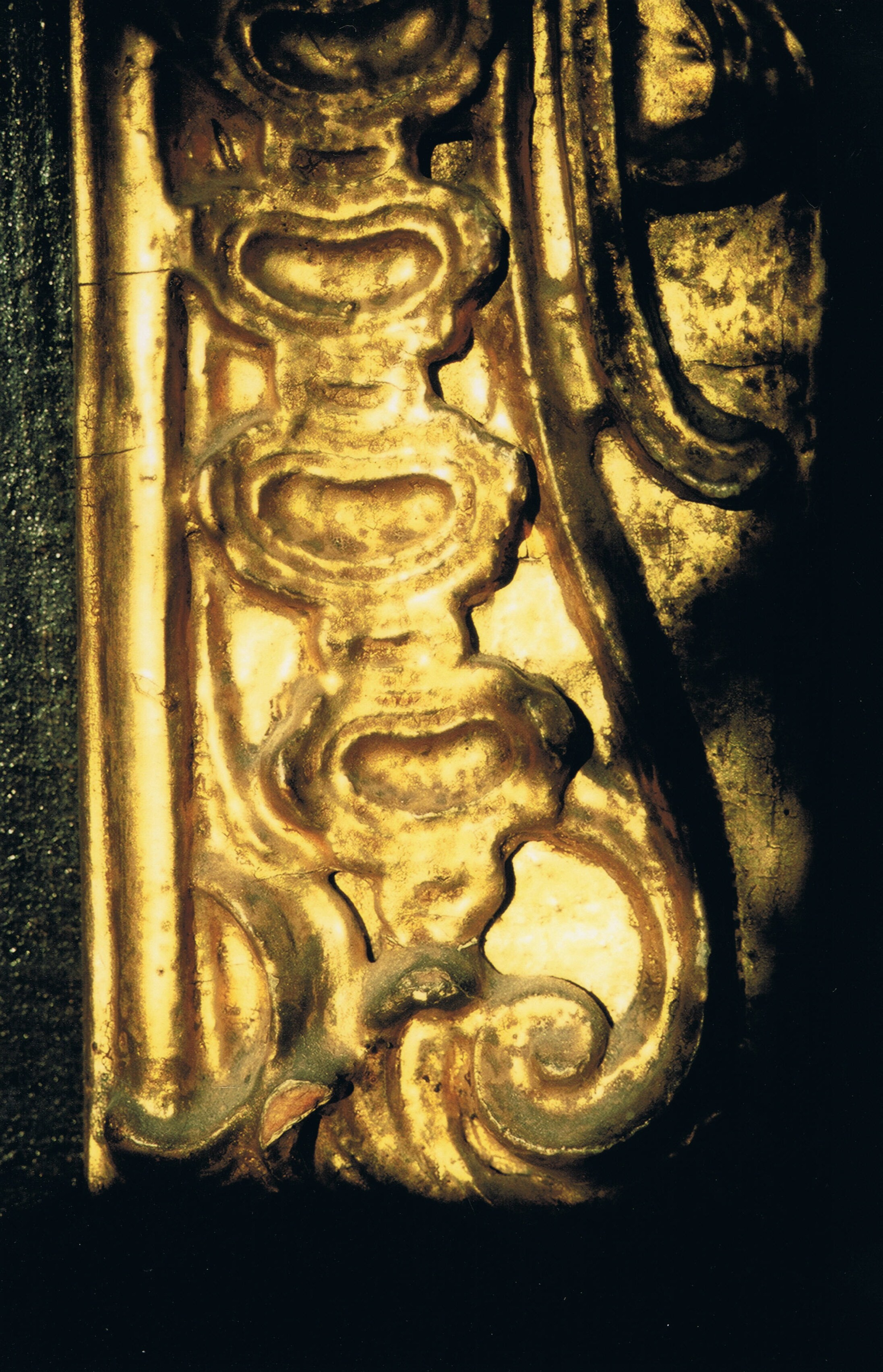 Detail of a mid-seventeenth century picture frame with papier-mâché appliqué. The pair of frames contain full length portraits, done c1643. Possible once hung at Apethorpe, Northants. (The portraits are of Henry Bourchier, 5th and last Earl of Bath and his wife Rachel, daughter of Francis Fane, 1st Earl of Westmorland). (photo: R. de Salis, Spring 2006)Rodolph (talk) 10:29, 29 January 2009 (UTC)